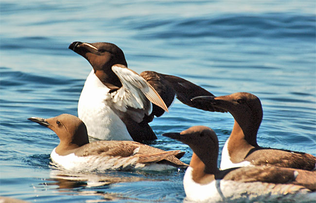 Razorbill and Common Guillemots at the norwegian bird-island Runde